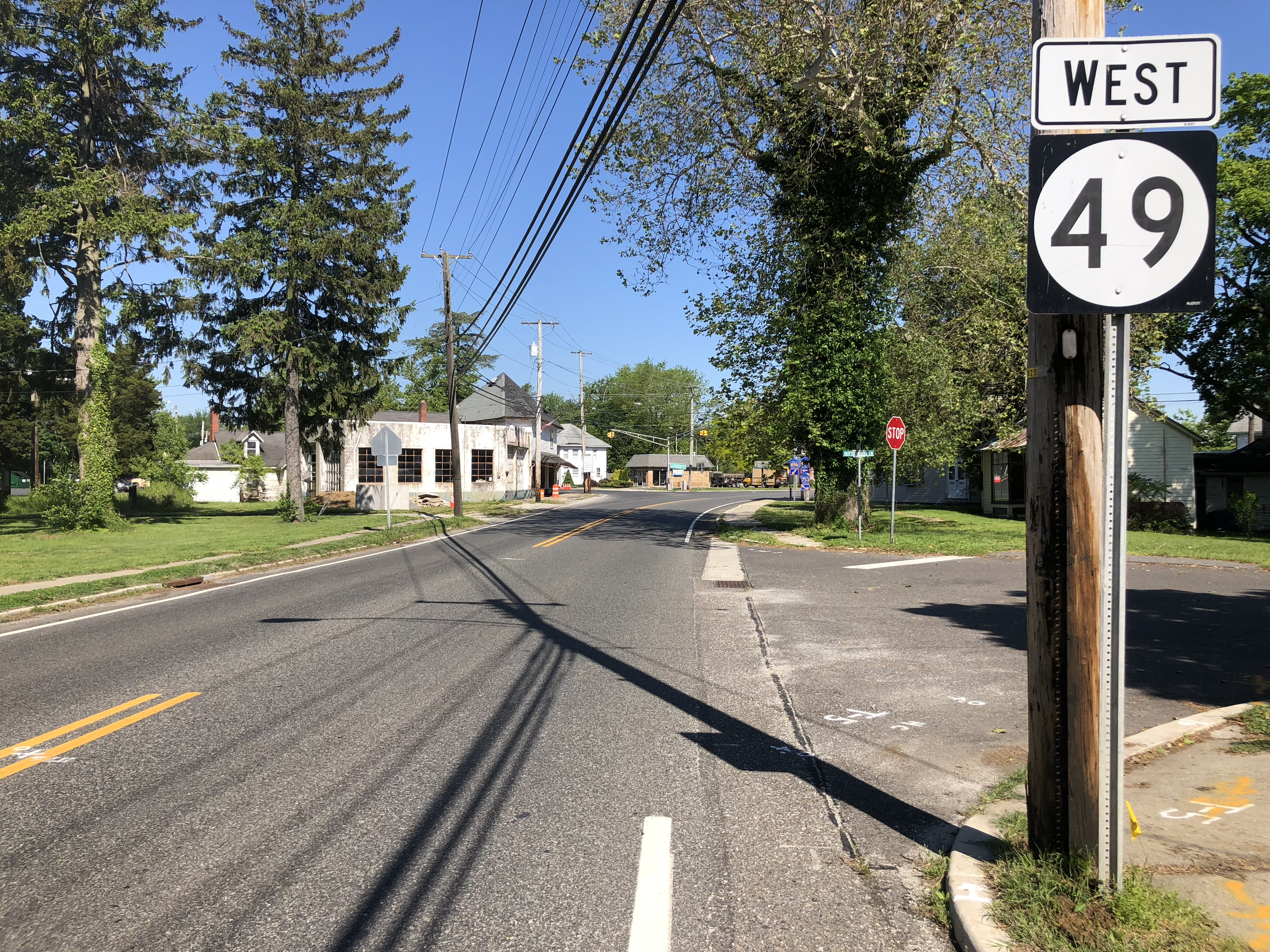 View west along New Jersey State Route 49 (Main Street) at Buttonwood Avenue in Shiloh, Cumberland County, New Jersey